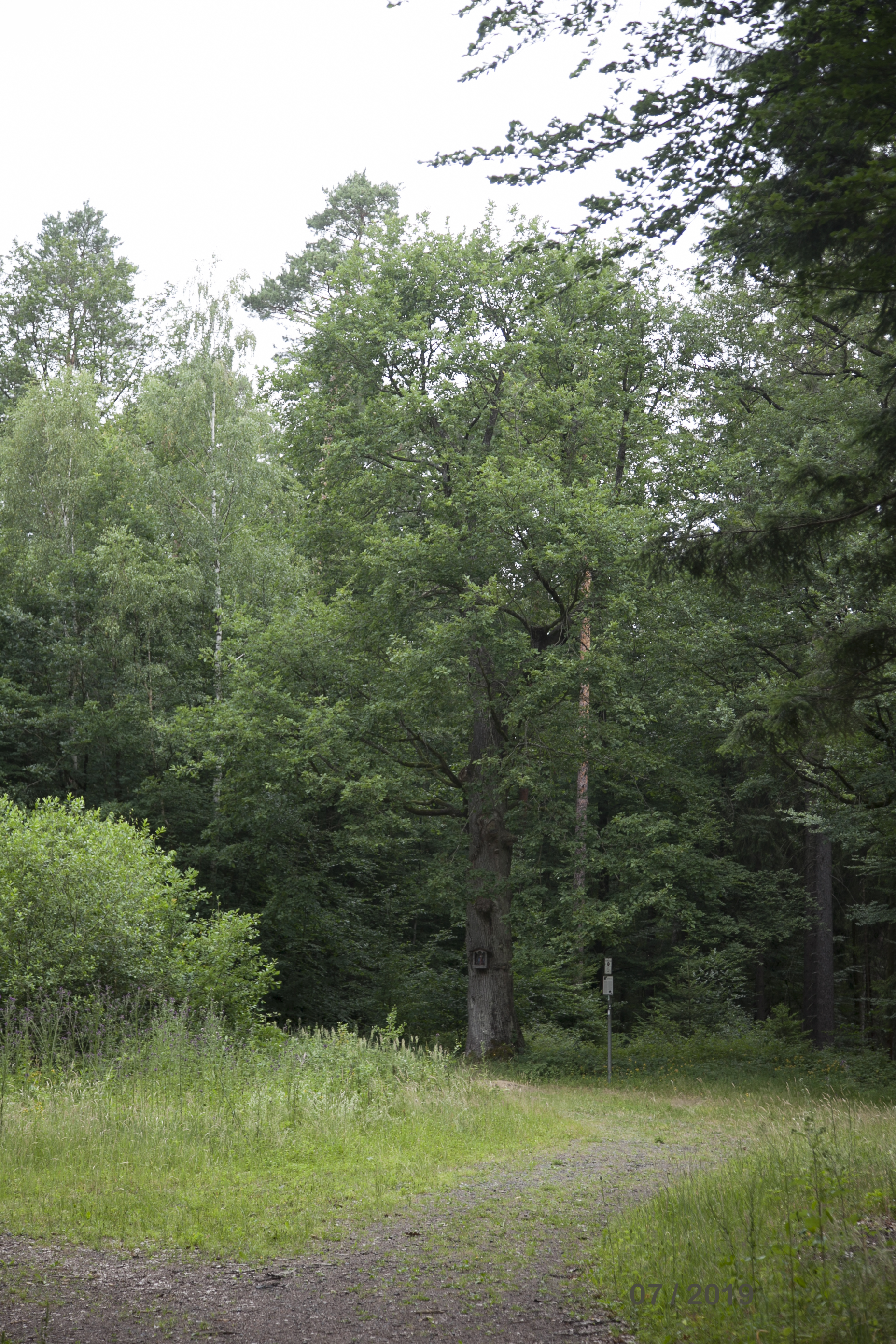 picture oak of village Burglahr / Western Forest (the whole tree)